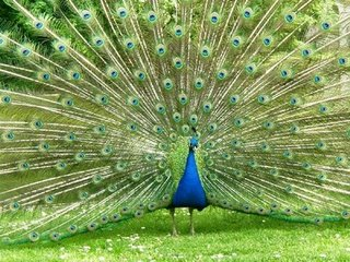 Chincholi Peacock